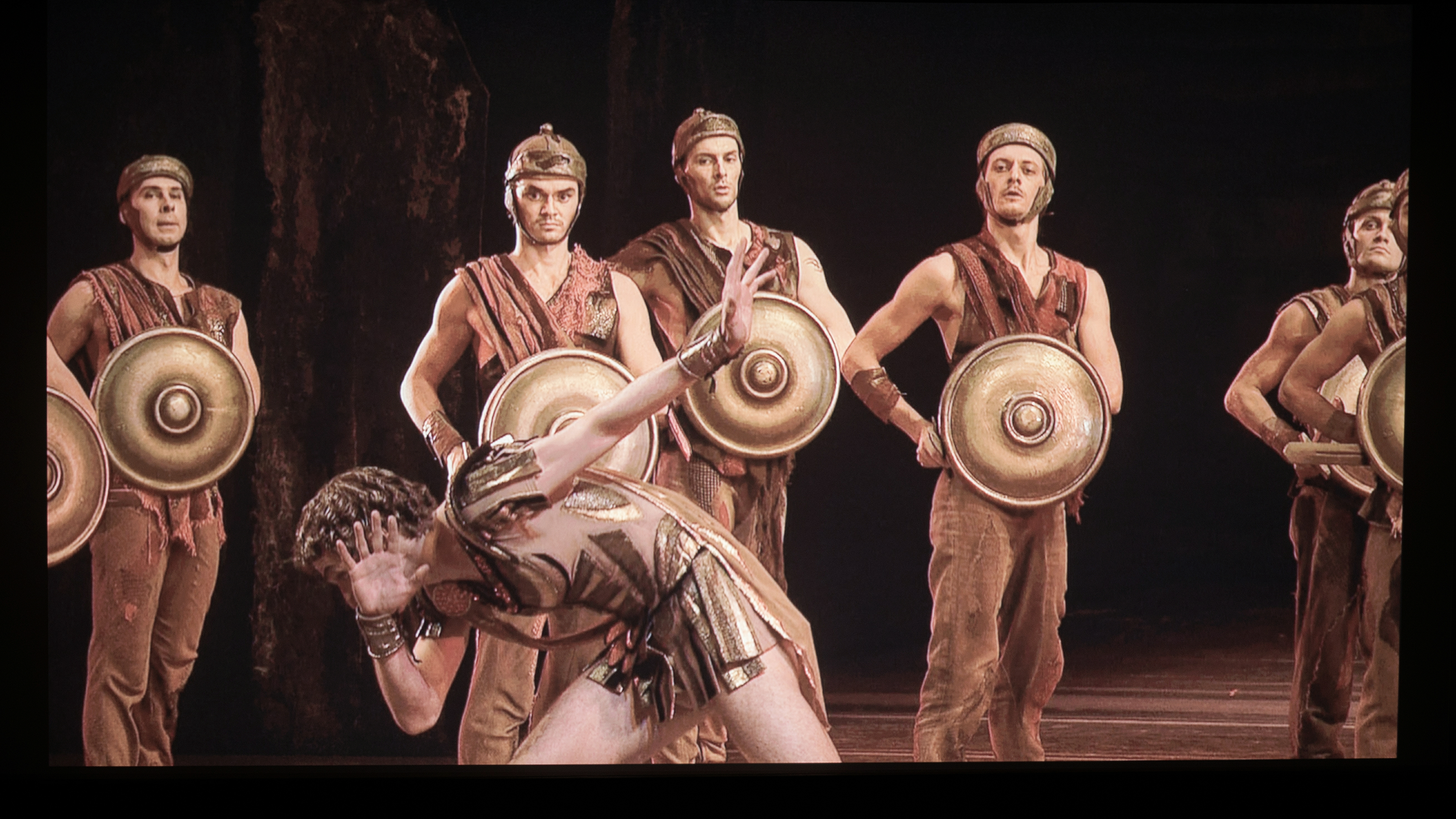 Spartacus at Bolshoi in Moskow October 2013